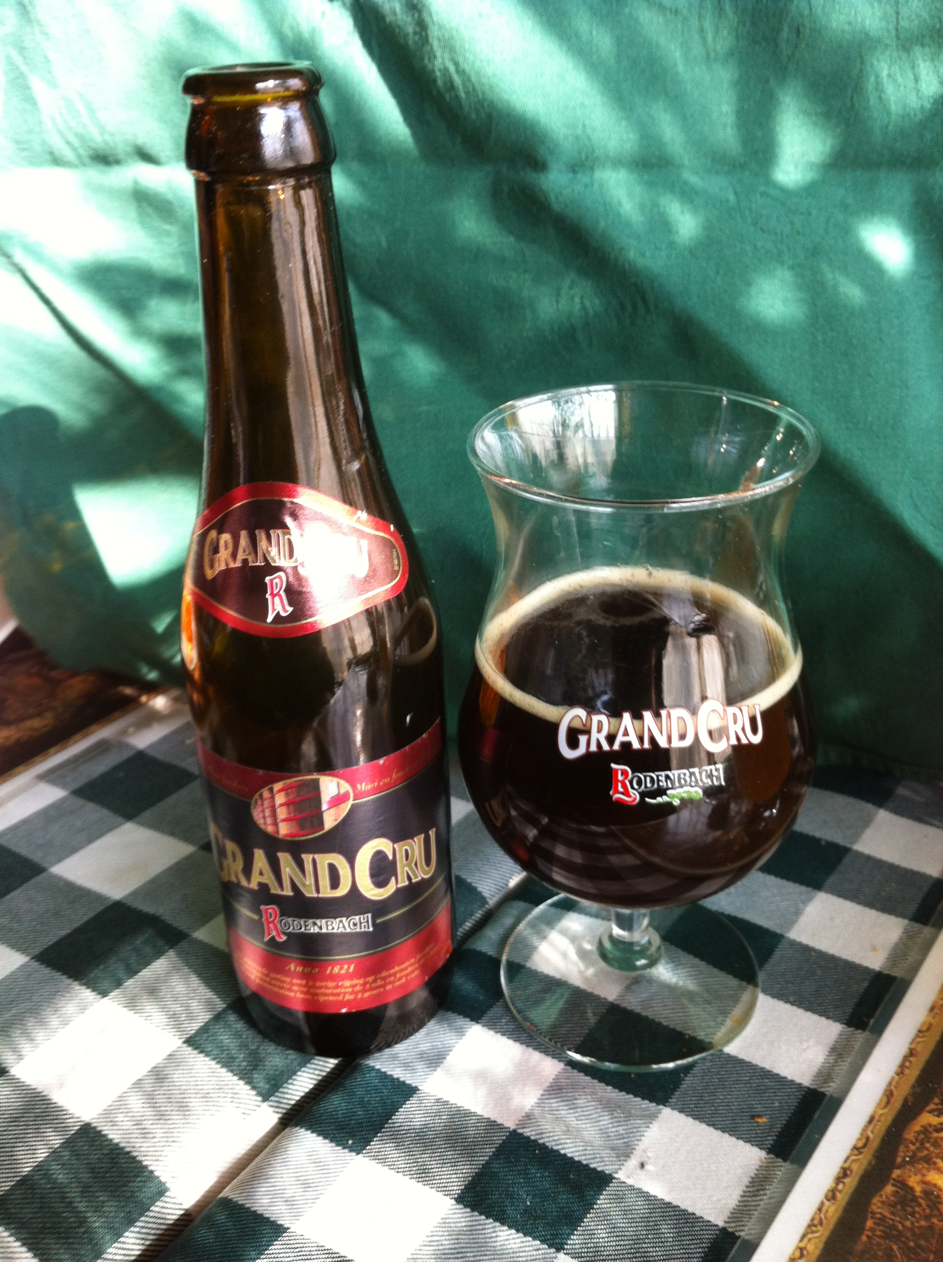 Rodenbach grand cru beer bottle with glass